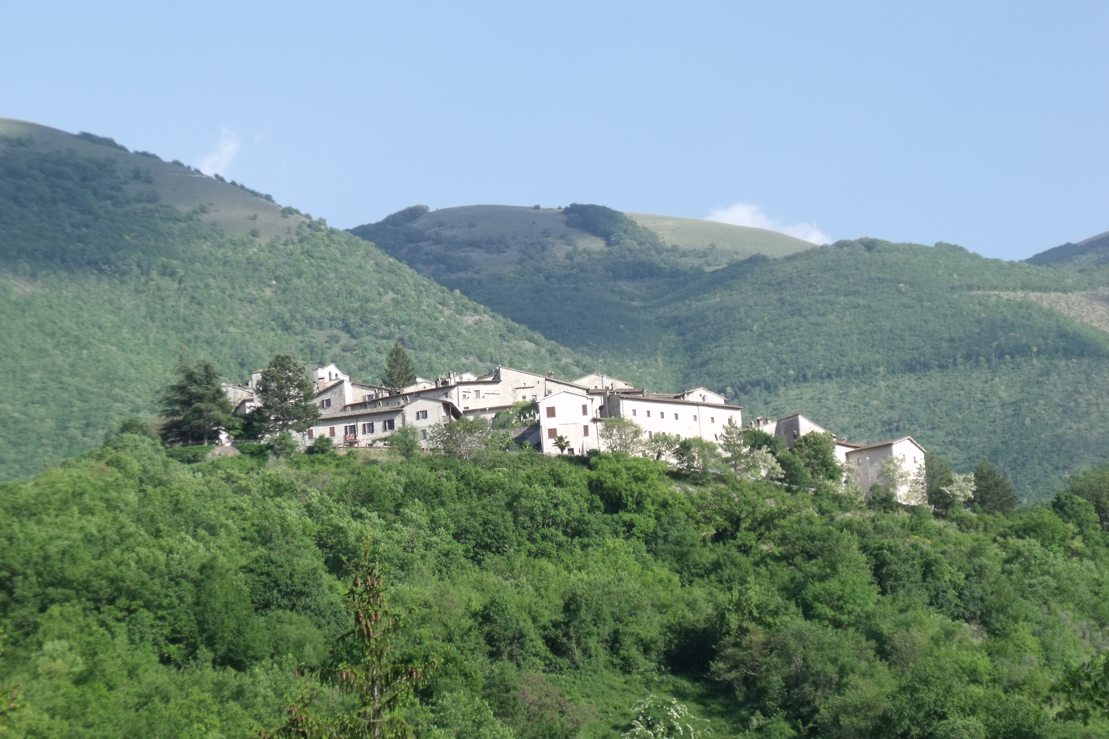 Panorama of Vallo di Nera, Valneria, Province of Perugia, Umbria, Italy